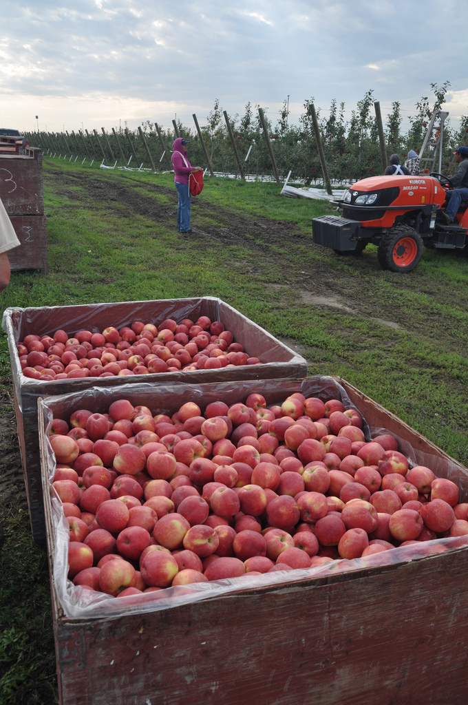 Picked SweeTango Apples